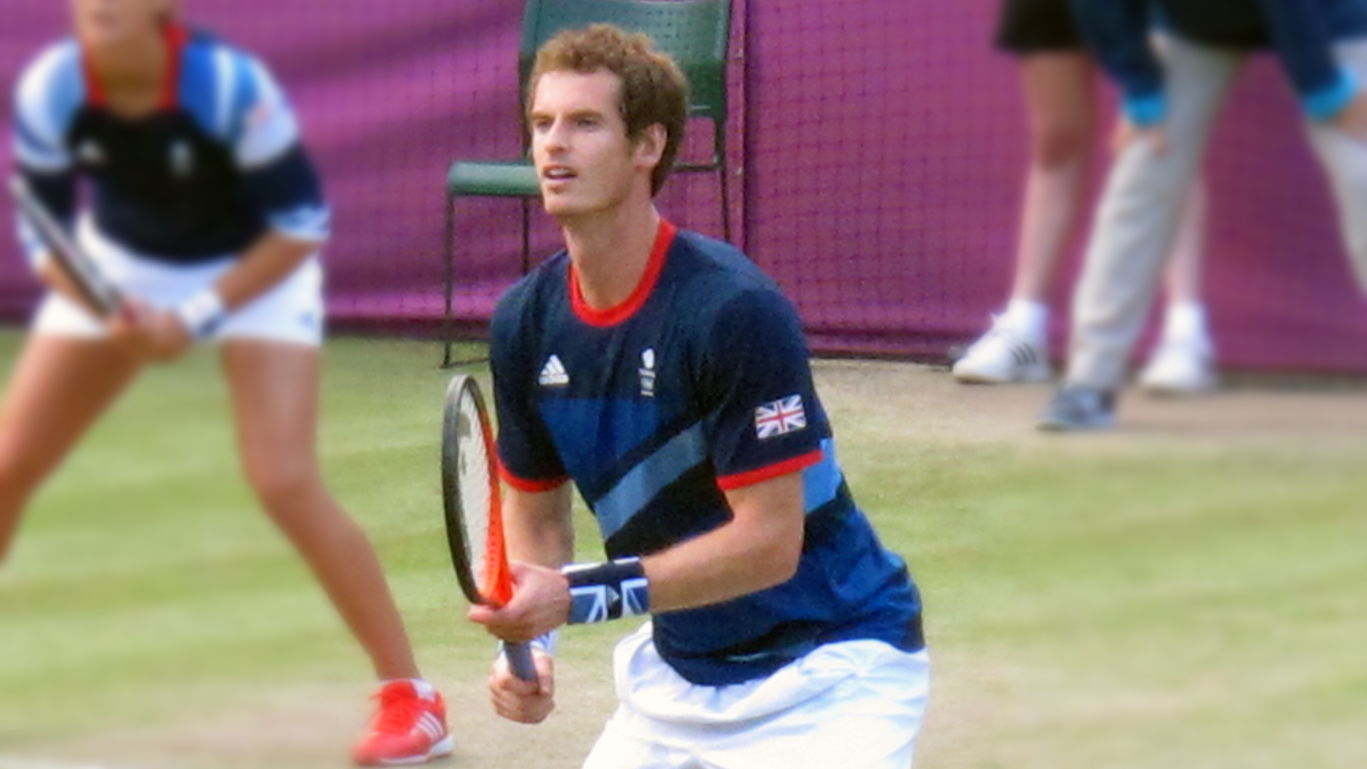 Laura Robson and Andy Murray in the Mixed Doubles at the 2012 London Olympics - CROPPED 16/9 for French tennis project